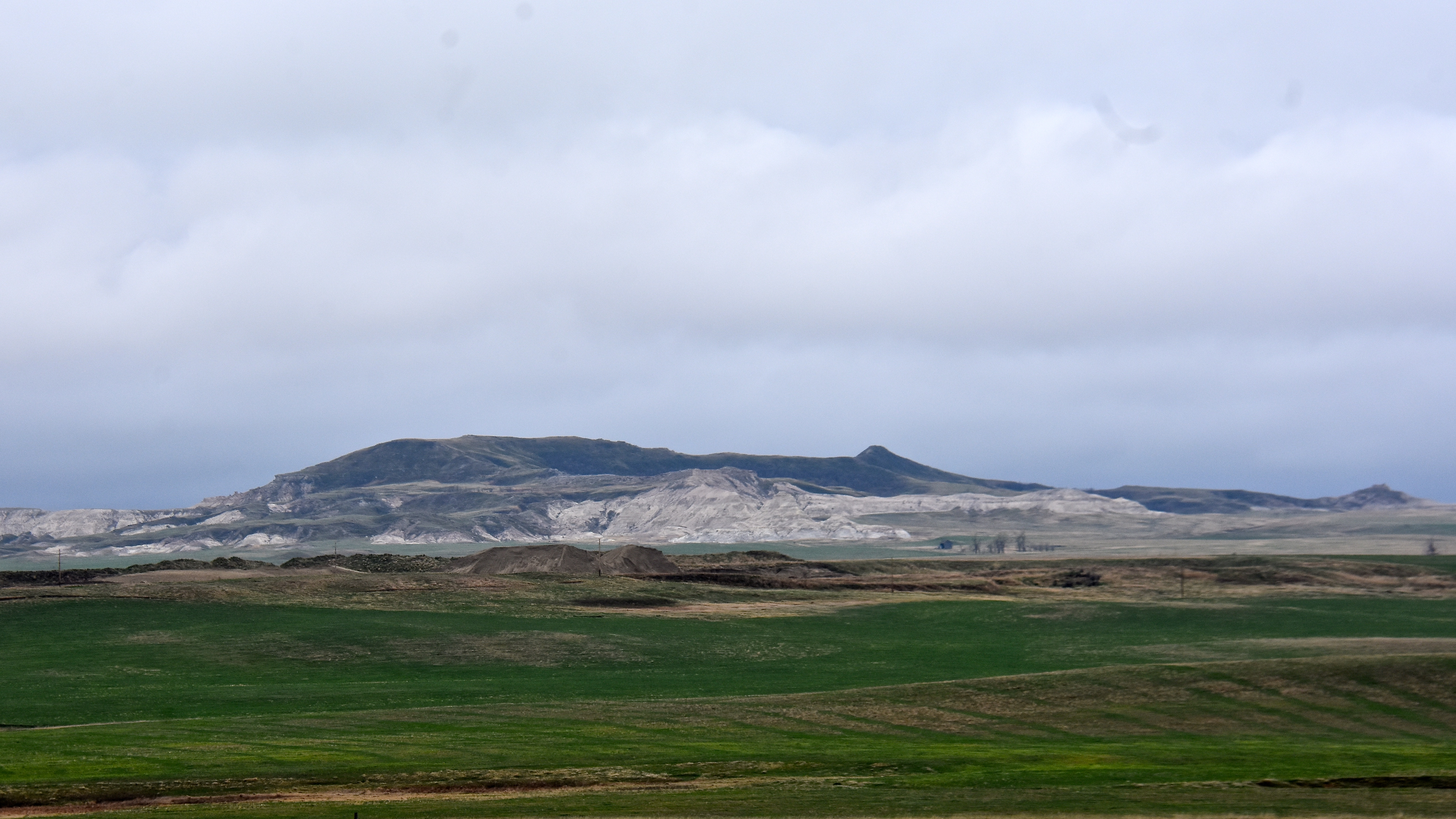 White Butte is the highest point in North Dakota at 3,507 feet.